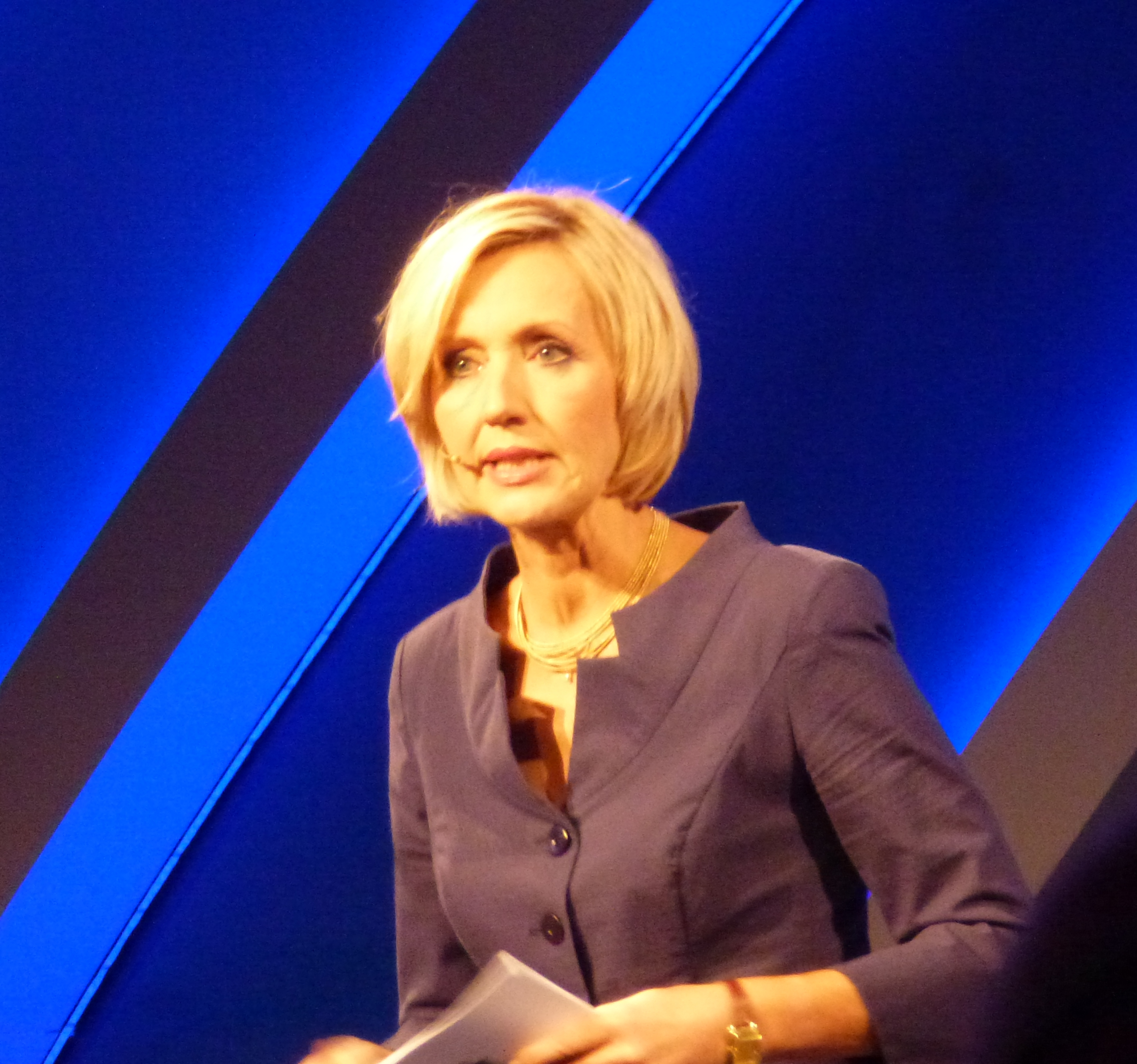 Journalist in German TV - Petra Gerster at an event at Messe Stuttgart in October 2012